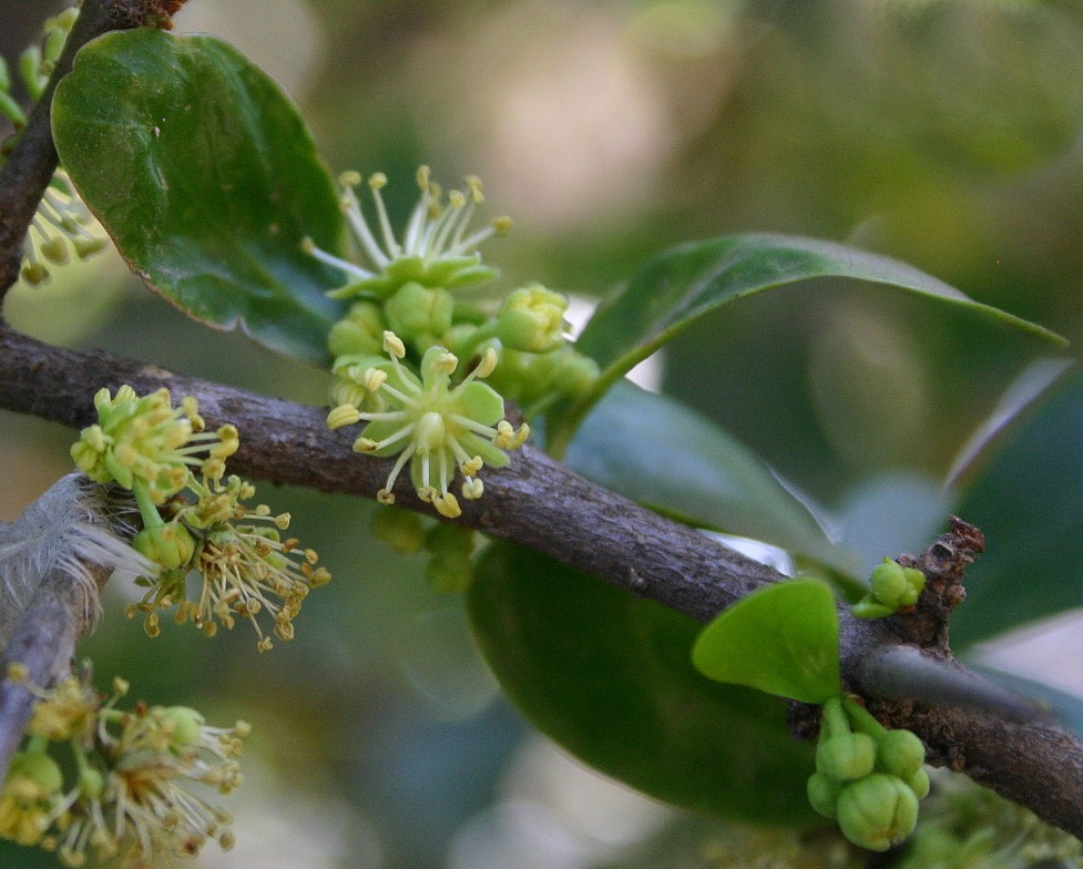 Flowers of Dovyalis caffra